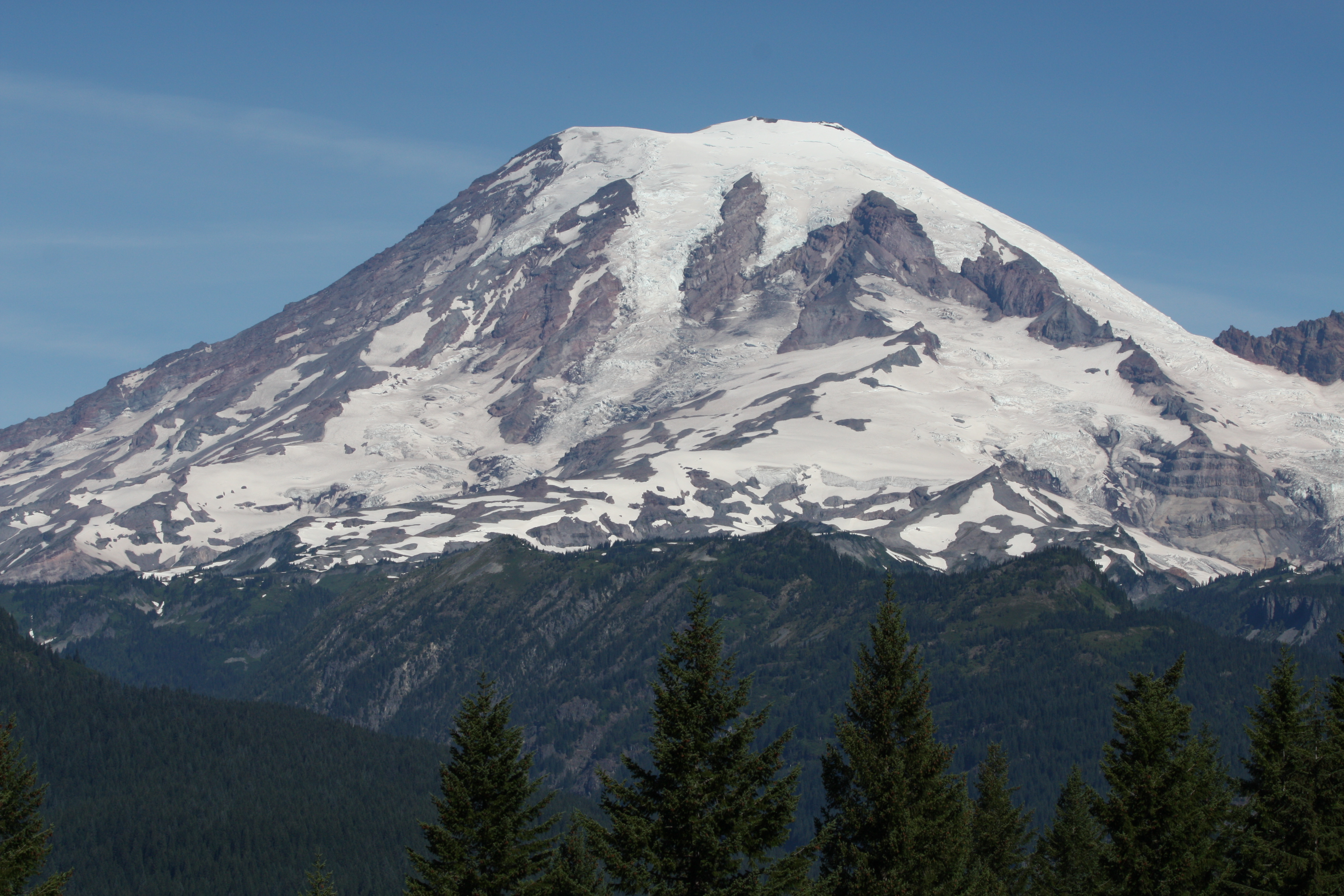 Nisqually Glacier (center, descending from the summit icecap); Kautz Headwall (left skyline); Kautz Glacier; Wilson Headwall (just left of Nisqually Glacier); Gibraltar Rock (right of Nisqually Ice Cliff); Cowlitz Glacier (below and right); Ingraham Glacier (right skyline)